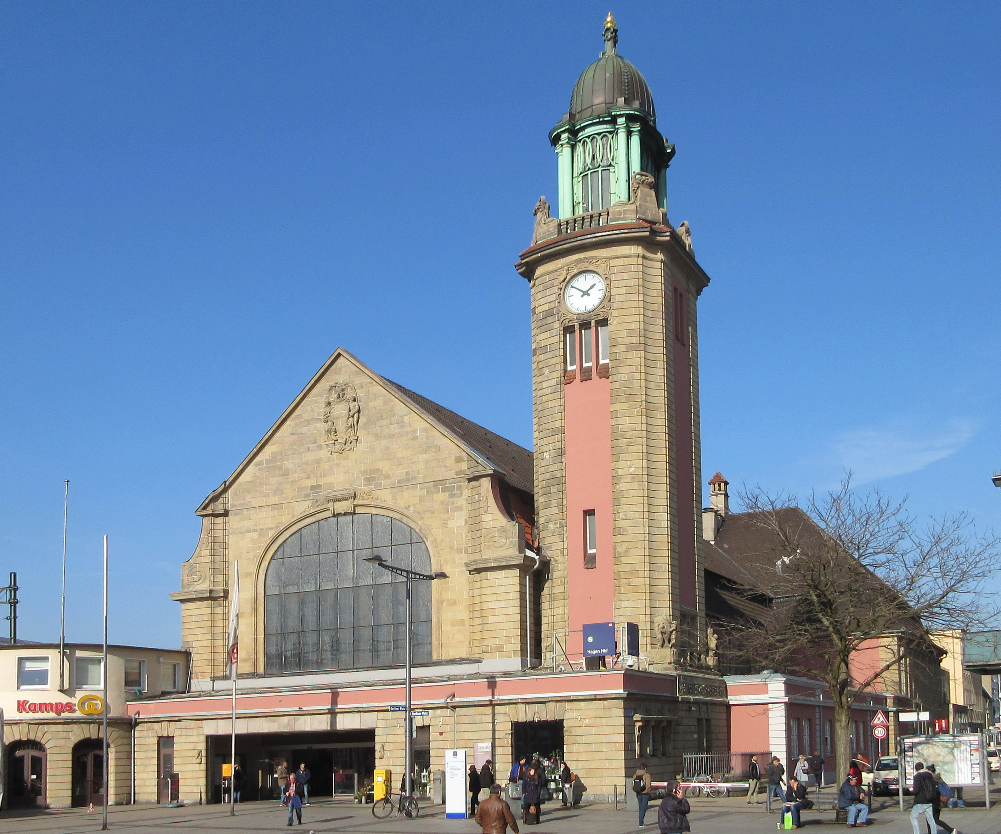 Hagen Main Station